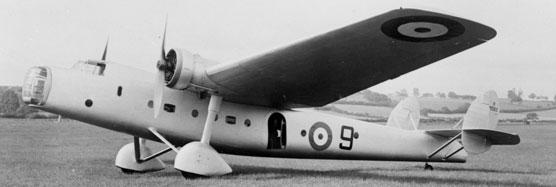 Bristol 130 Bombay.